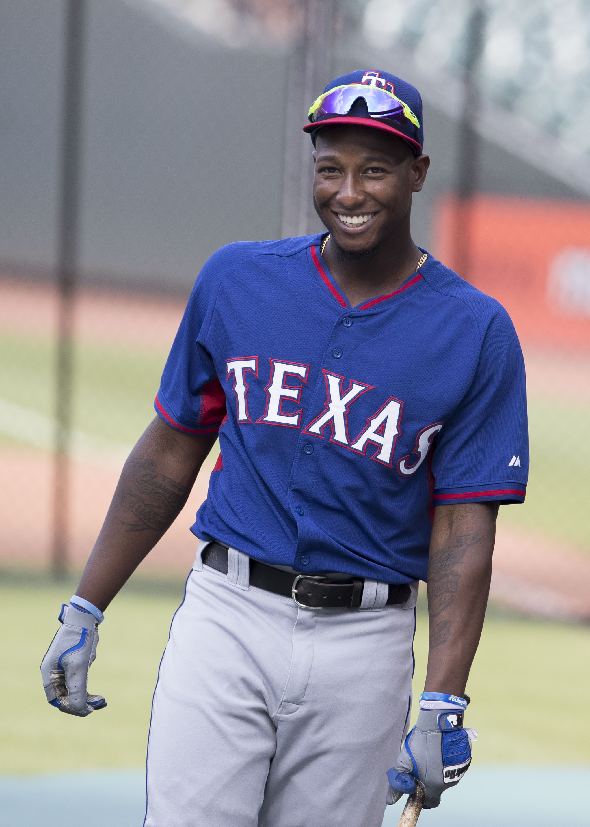 Jurickson Profar